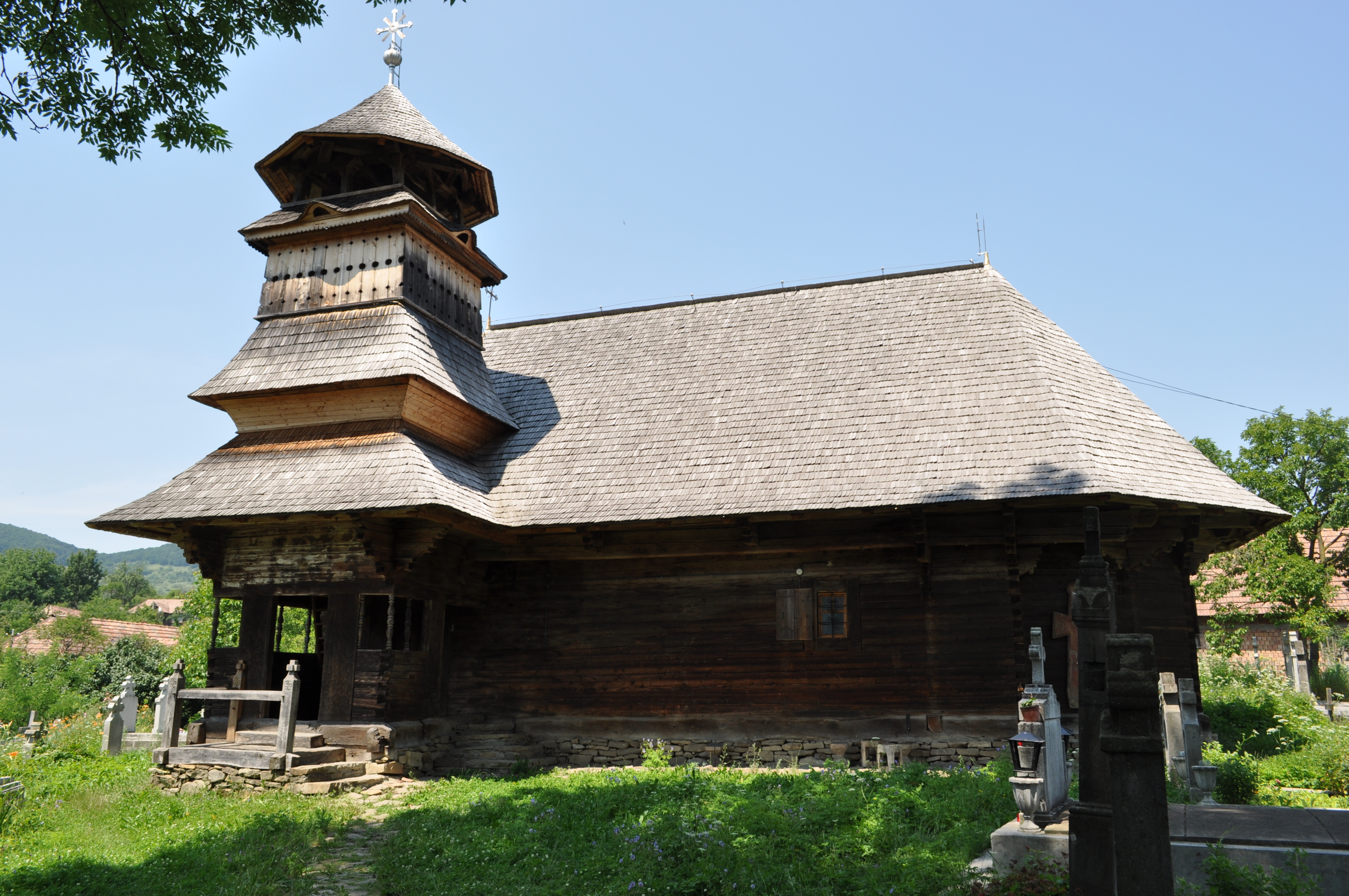 Wooden church in Săcalu de Pădure, Mureș countyRomână: Biserica de lemn din Săcalu de Pădure, județul Mureș